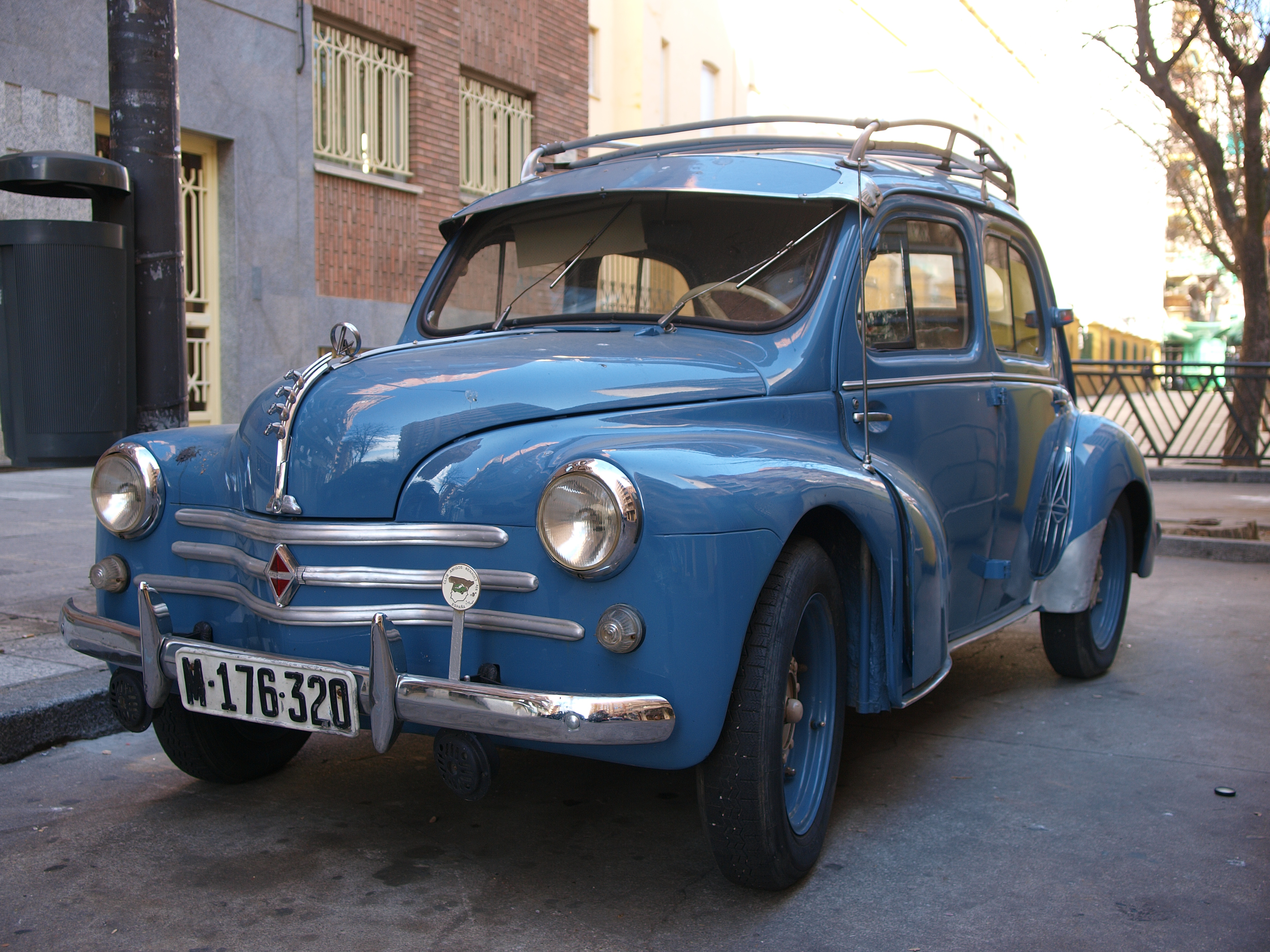 Renault 4CV locally built by FASA (Valladolid, Spain, 1957)